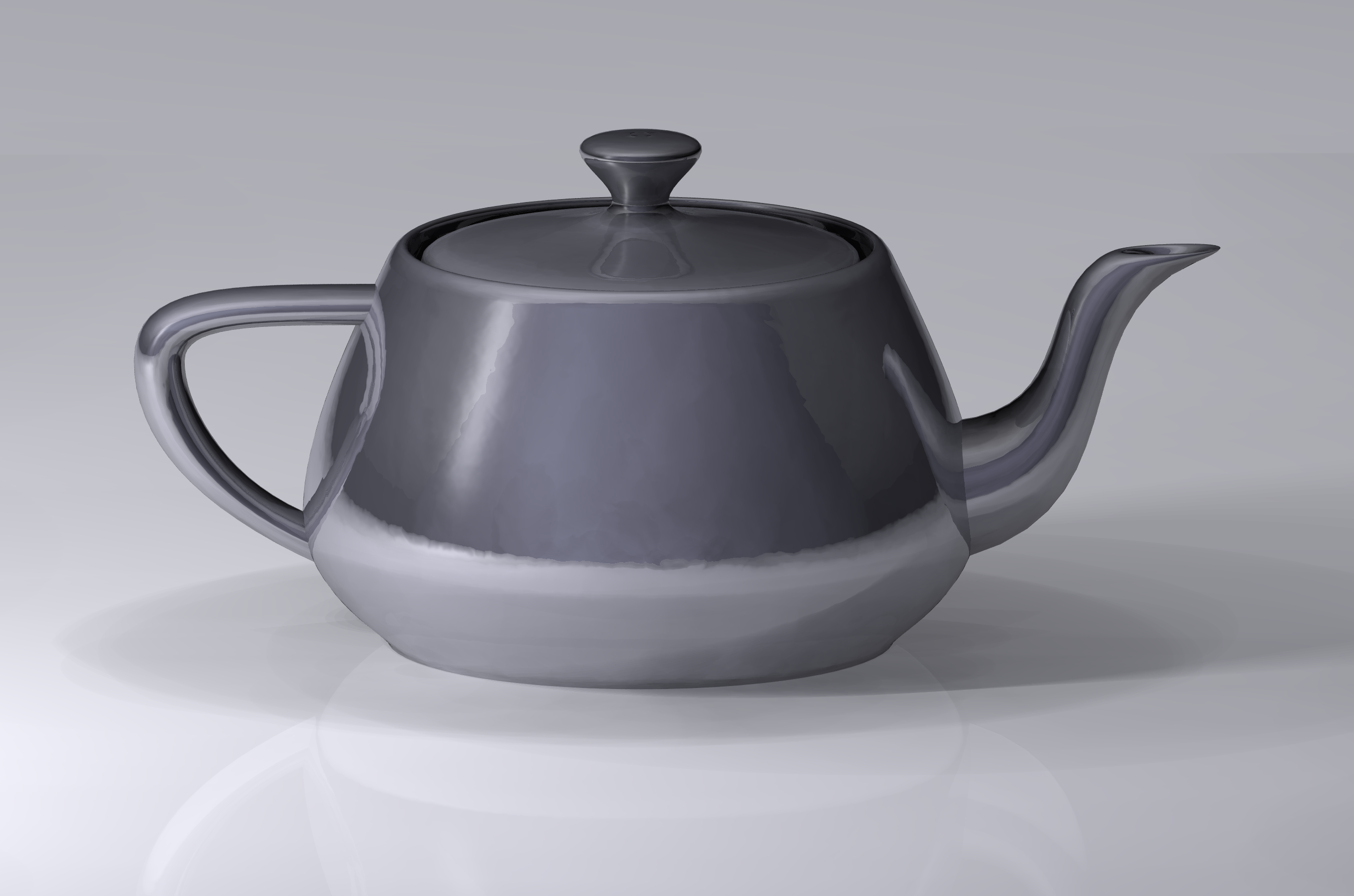 The Utah teapot is one of a handful of iconic models from the early development of 3D computer graphics, having been developed by Martin Newell and modified by his co-worker, Jim Blinn in 1975.